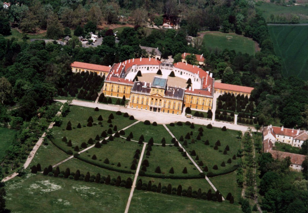 Garden of Castles - Fertőd - Hungary - Europe